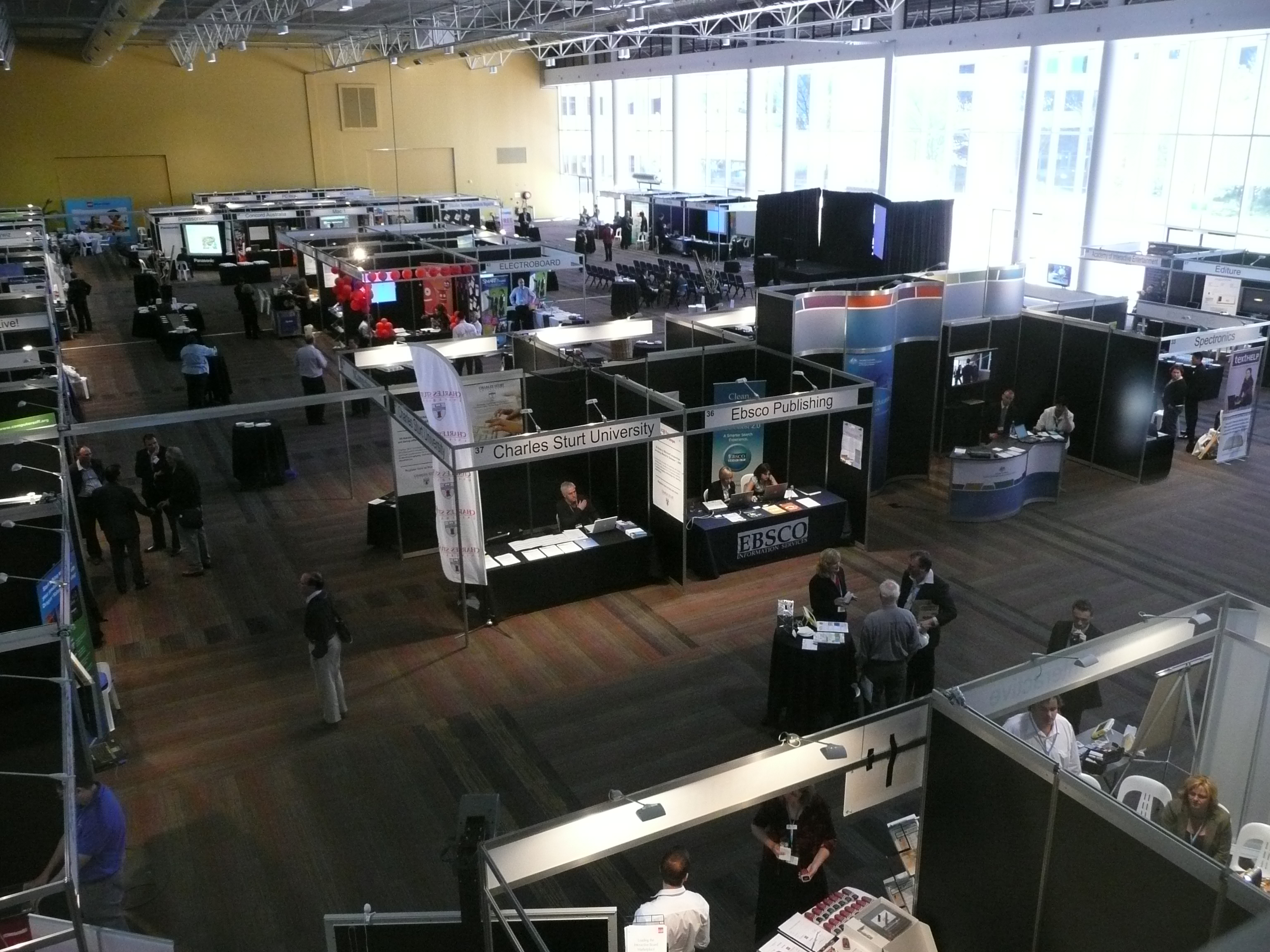 The trade show of the Australian Computers in Education Conference (ACEC) 2008, in the National Convention Centre Canberra.